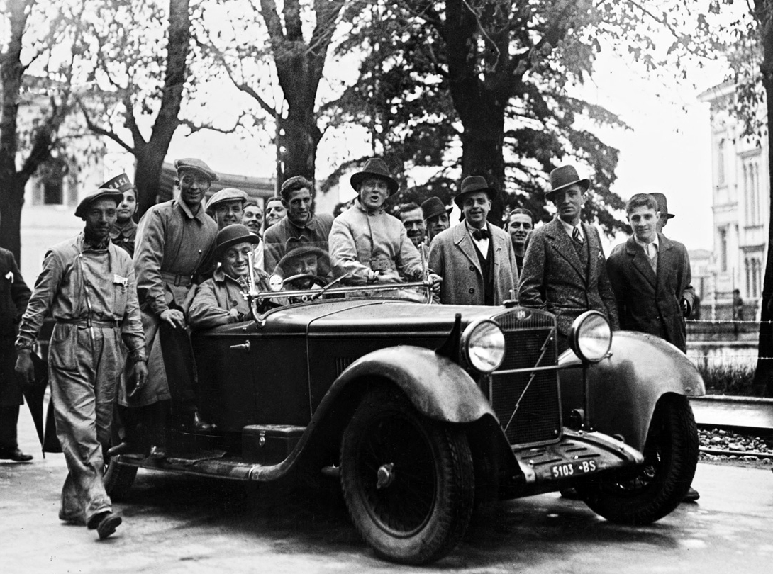 OM 665 Superba and people. Once captions says: "Renzo Castagneto behind the wheel of a 665 O.M. at the event he helped create, the Mille Miglia."[1] Copyright Fondazione Negri." Three OM 665 Superba took 1st, 2nd and 3rd place at this Mille Miglia, which was first held in 1927, start in Brescia. License "5103 BS", and since 1927 "BS" means Brescia,[2] so this should be 1927 or later.